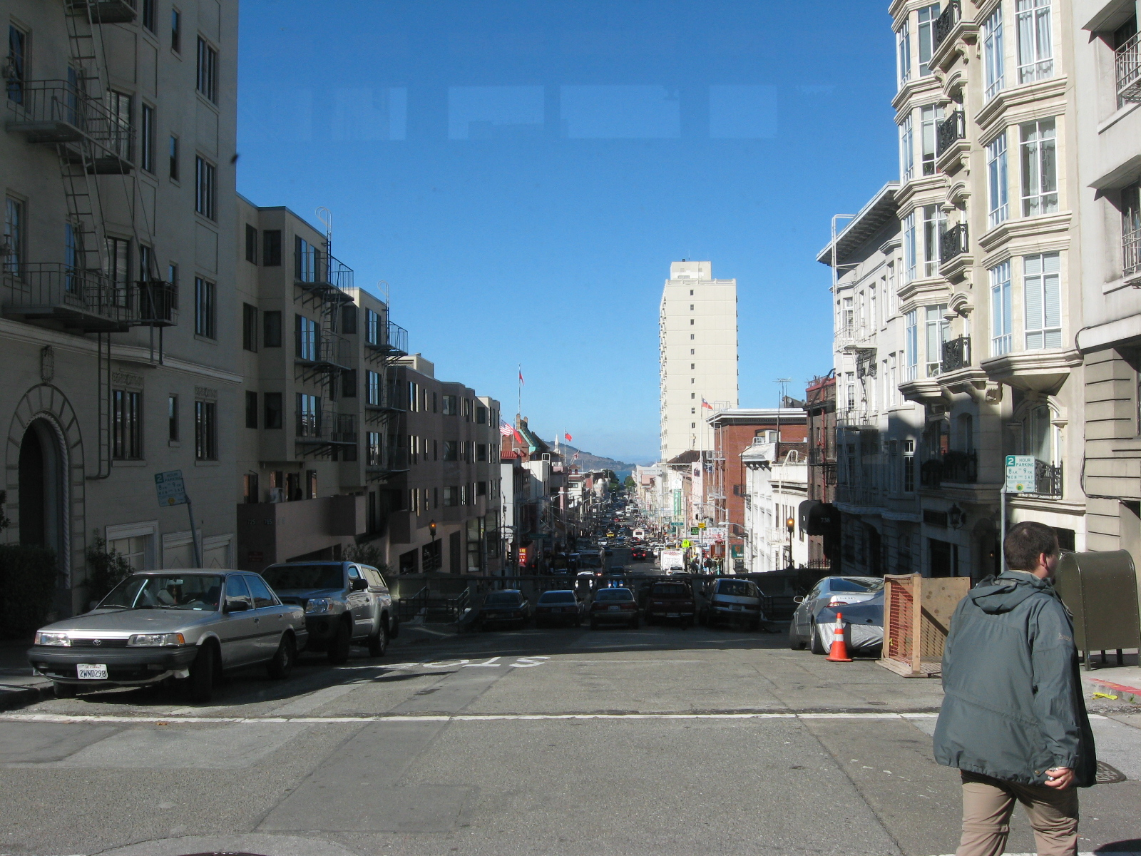 California and Stockton. Stockton street is right below with the Stockton Tunnel.